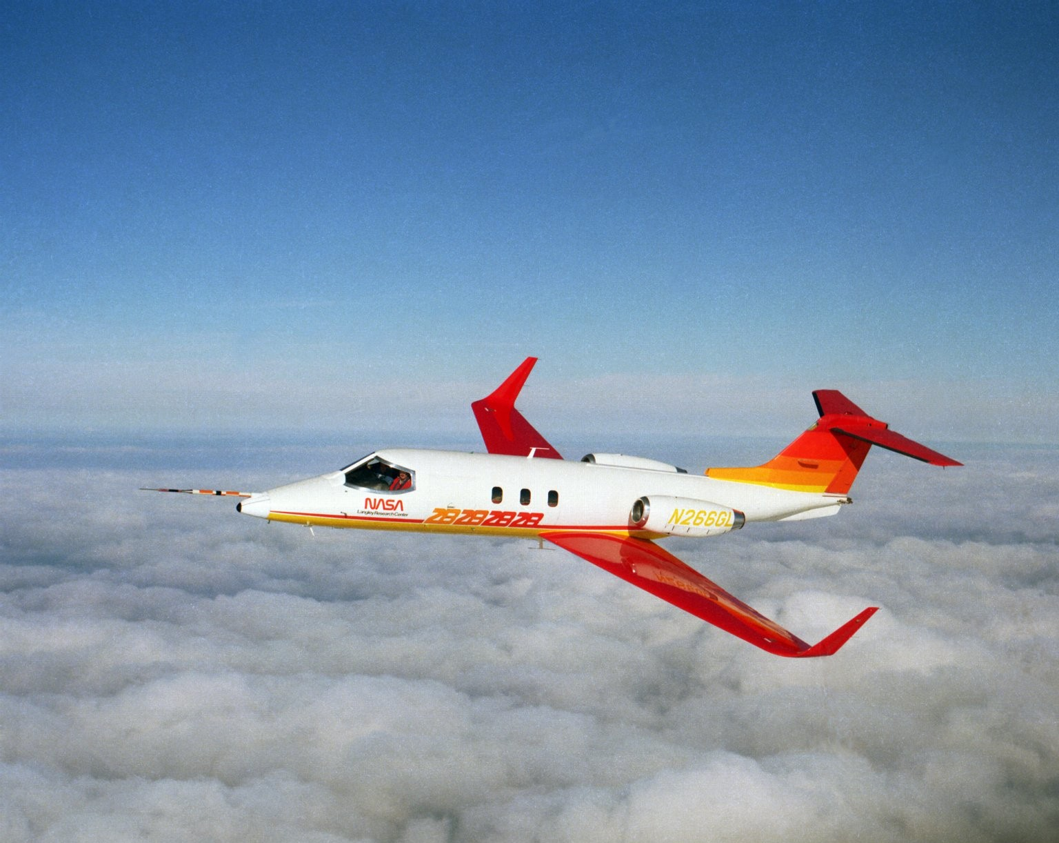 A Learjet 28/29, the first production jet aircraft fitted with winglets.